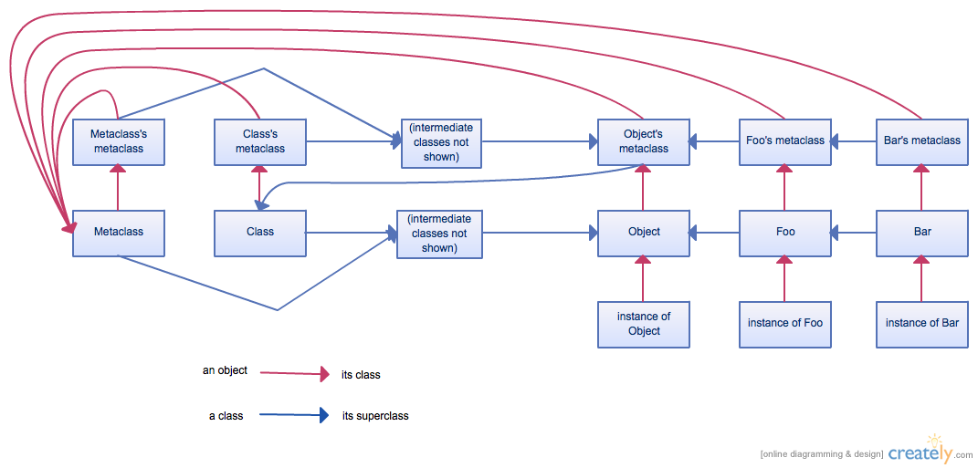 This is a diagram I drew of the inheritance and instance-of relationships of classes and metaclasses in Smalltalk-80 based on my understanding.